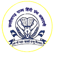 CRHGA